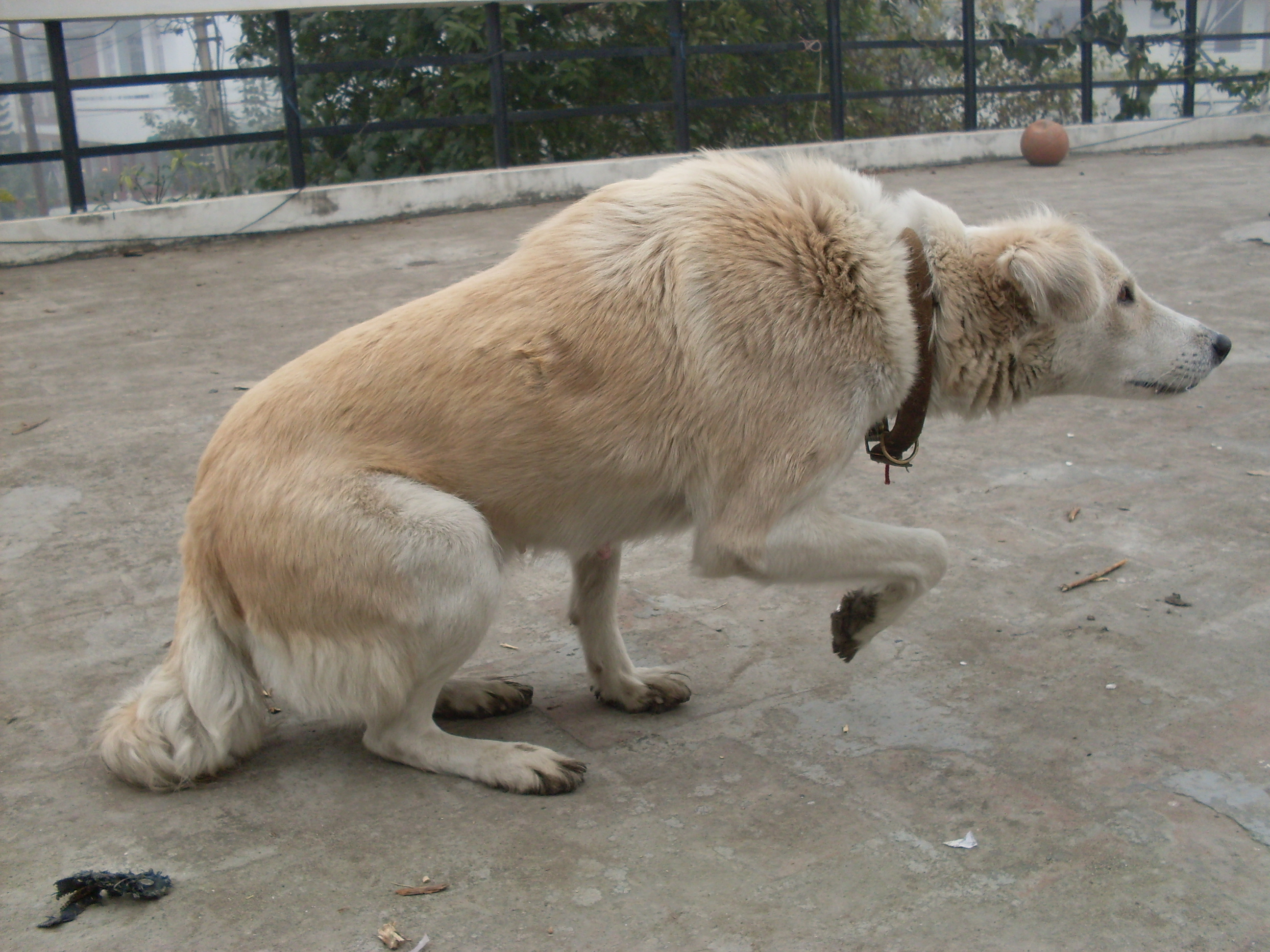 The dog is actively stalking a bird. I think this is an ace snapshot of aggressive dog behavior. We can notice the features like aggressive stalking, lowered head, body down, foot pointing, raised back hair and focused attention. wow! Brownie is looking cool :)